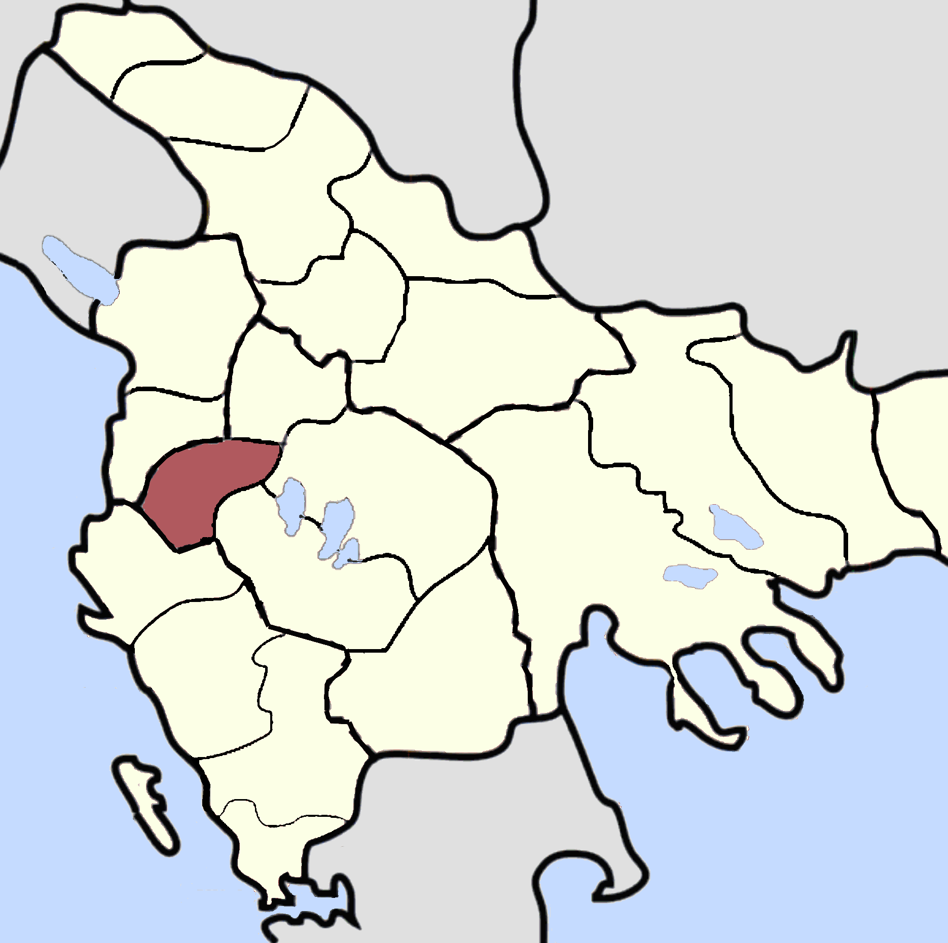 XY Sanjak, Ottoman Empire (late 19th century). Source: The Crescent and the Eagle- Ottoman Rule, Islam and the Albanians, 1874-1913 at Google Books By George Gawrych